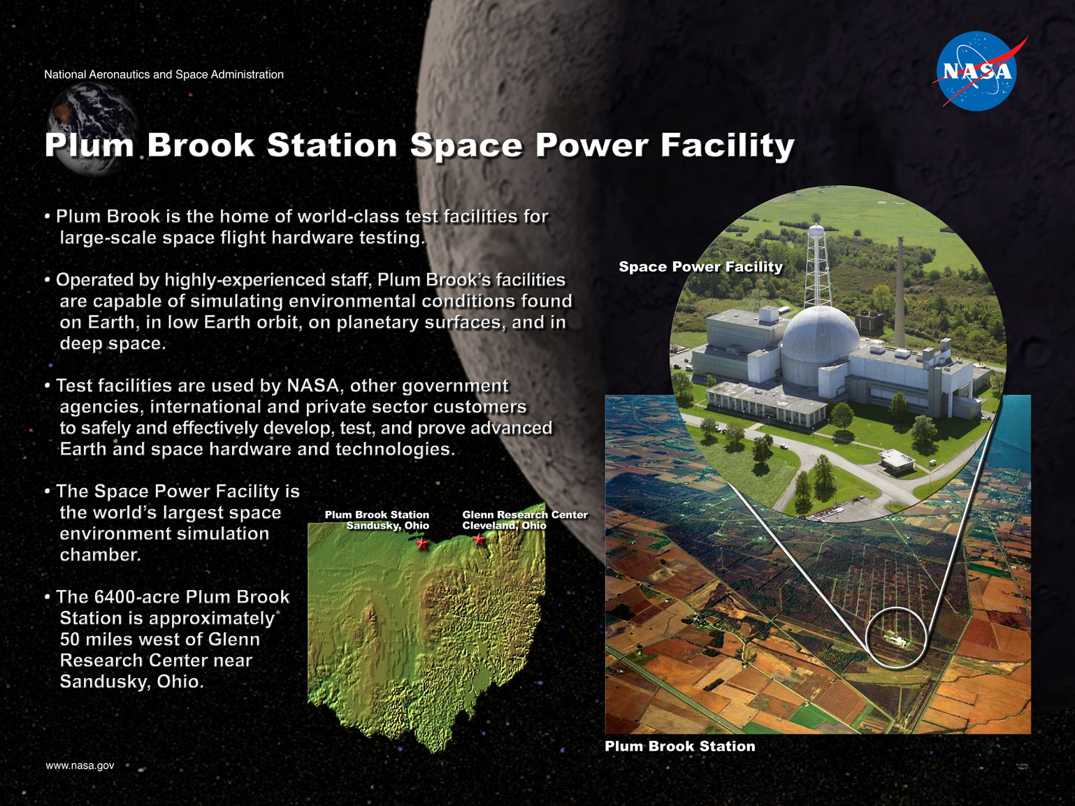 Overview of the Space Power Facility at NASA's Plum Brook Station